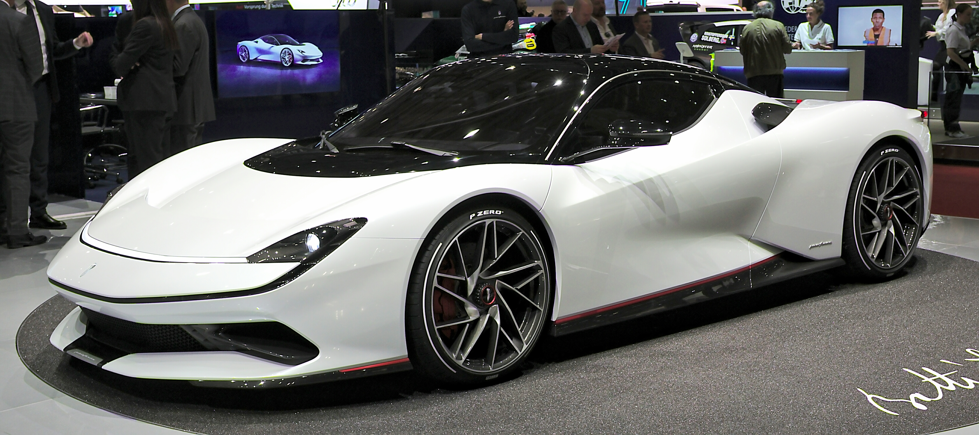 Pininfarina Battista at Geneva Motor Show 2019